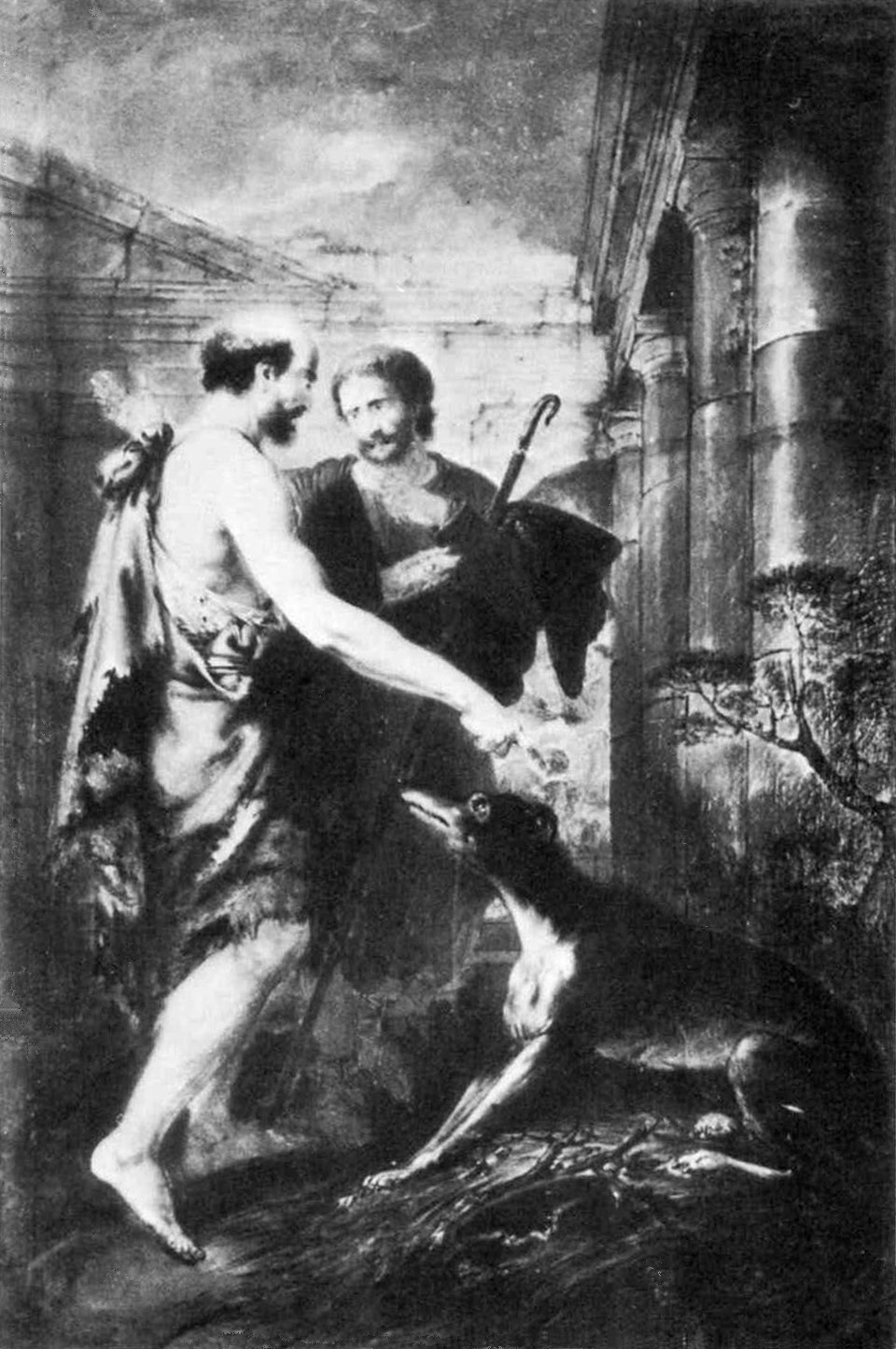 Ulysses, having returned, recognized by his hound. Bernhard Rode, 1778. Is part of a series of paintings for the Gut Neuhaus (in Ostholstein) ordered by the astronom Friedrich von Hahn (1742-1805).